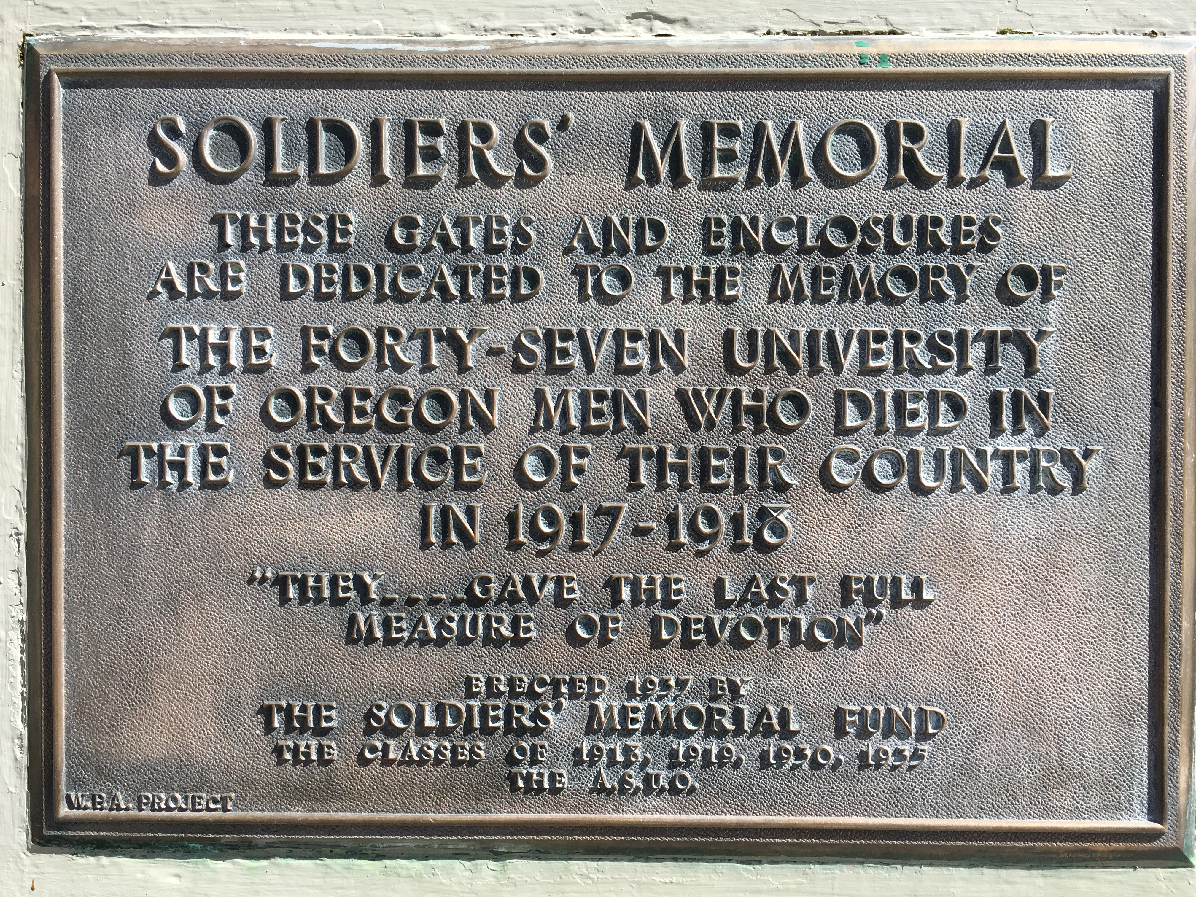 Memorial plaque dedicated to soldiers who died in World War I, on the gates to Jane Sanders Stadium, the only remnants of Howe Field. Located on University Avenue near 18th Street in Eugene, Oregon.